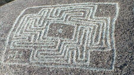 Hemet Maze Stone — Reinhardt Canyon, on the easterly side of the Lakeview Mountains, Southern California. A prehistoric petroglyph near Hemet, Riverside County, California. California Historical Landmark No. 557. Credits Photo taken 22 Dec 2003 by Takwish with a Fujifilm FinePix S2650.